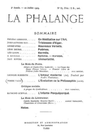 Front cover of La Phalange, issue 37, July 20, 1919, a french magazine of literature, created by Jean Royère.